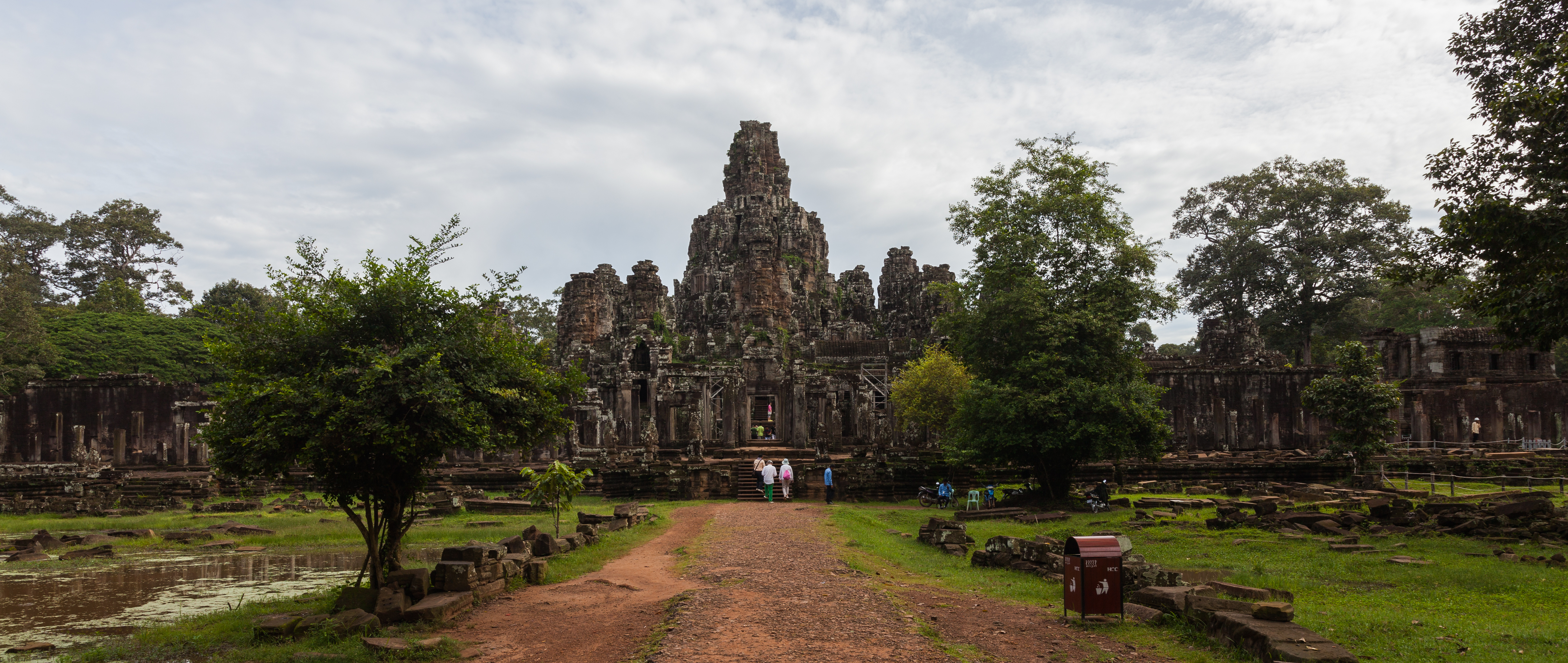 Bayon, Angkor Thom, Cambodia